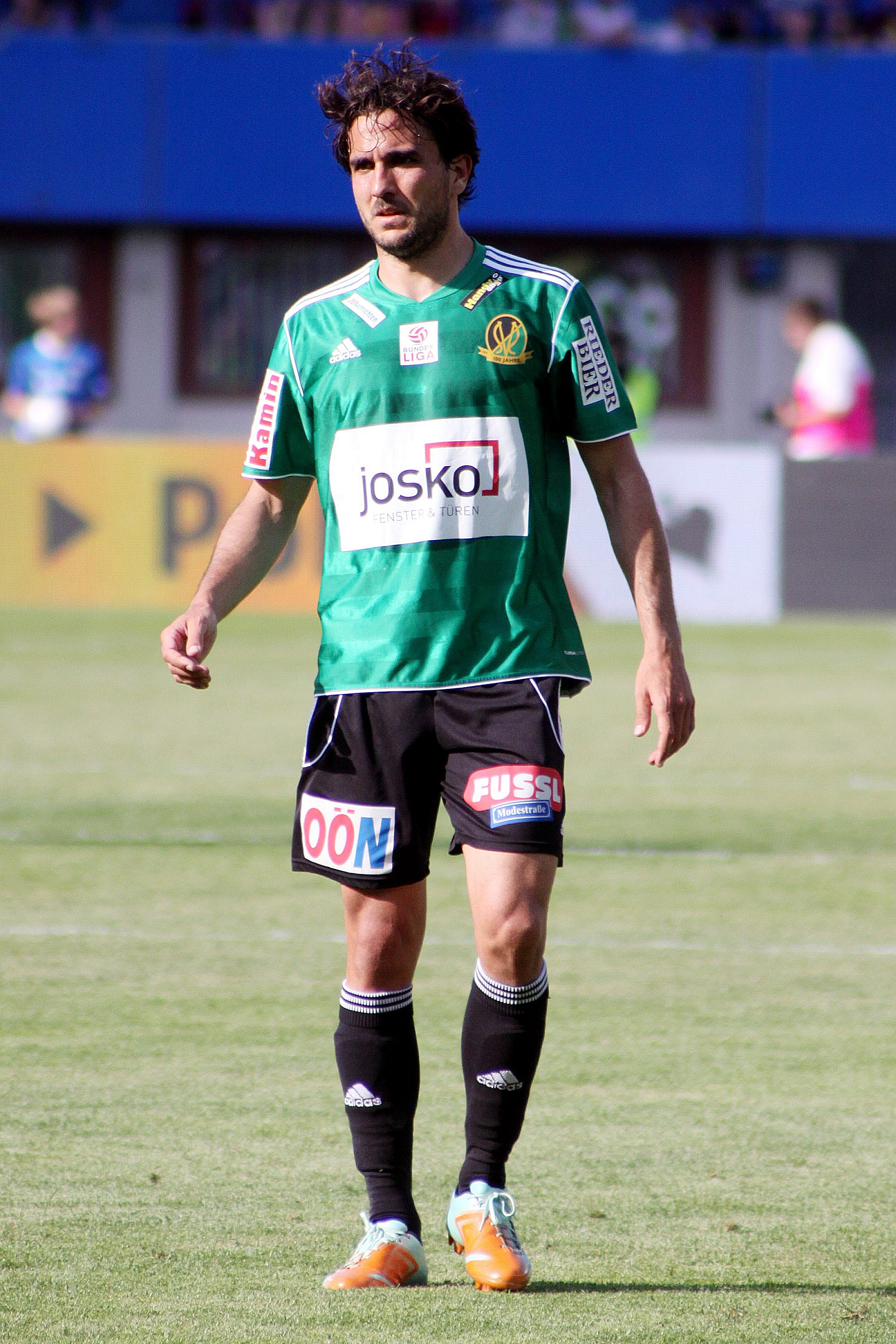 Final of the 2011–12 Austrian Cup FC Red Bull Salzburg vs. SV Ried at 2012-05-20 in the Ernst-Happel-Stadion, Vienna 3:0 (2:0). Object location48° 12′ 25.8″ N, 16° 25′ 15.42″ E